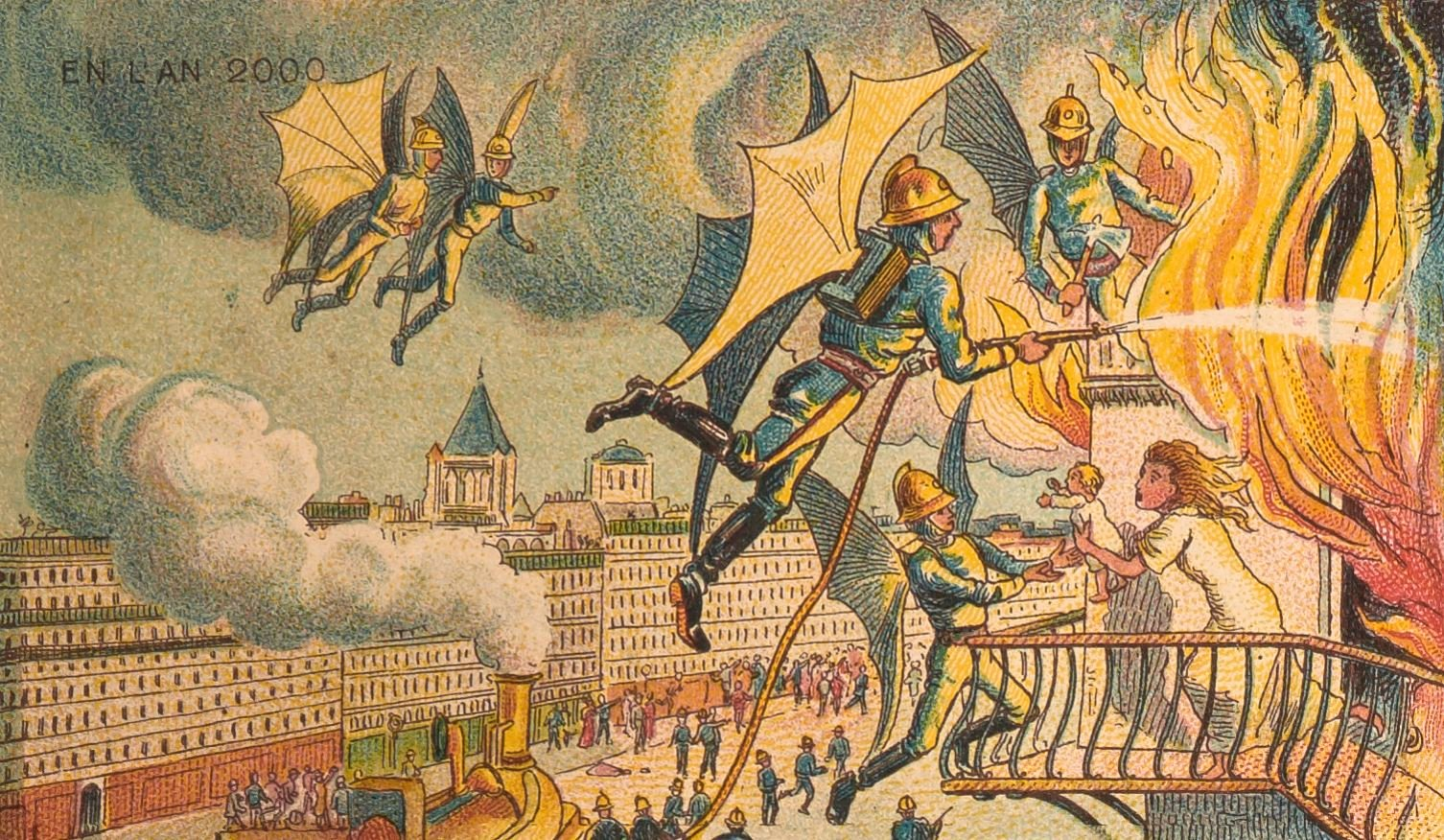 France in 2000 year (XXI century). Air firemans. France, paper card.